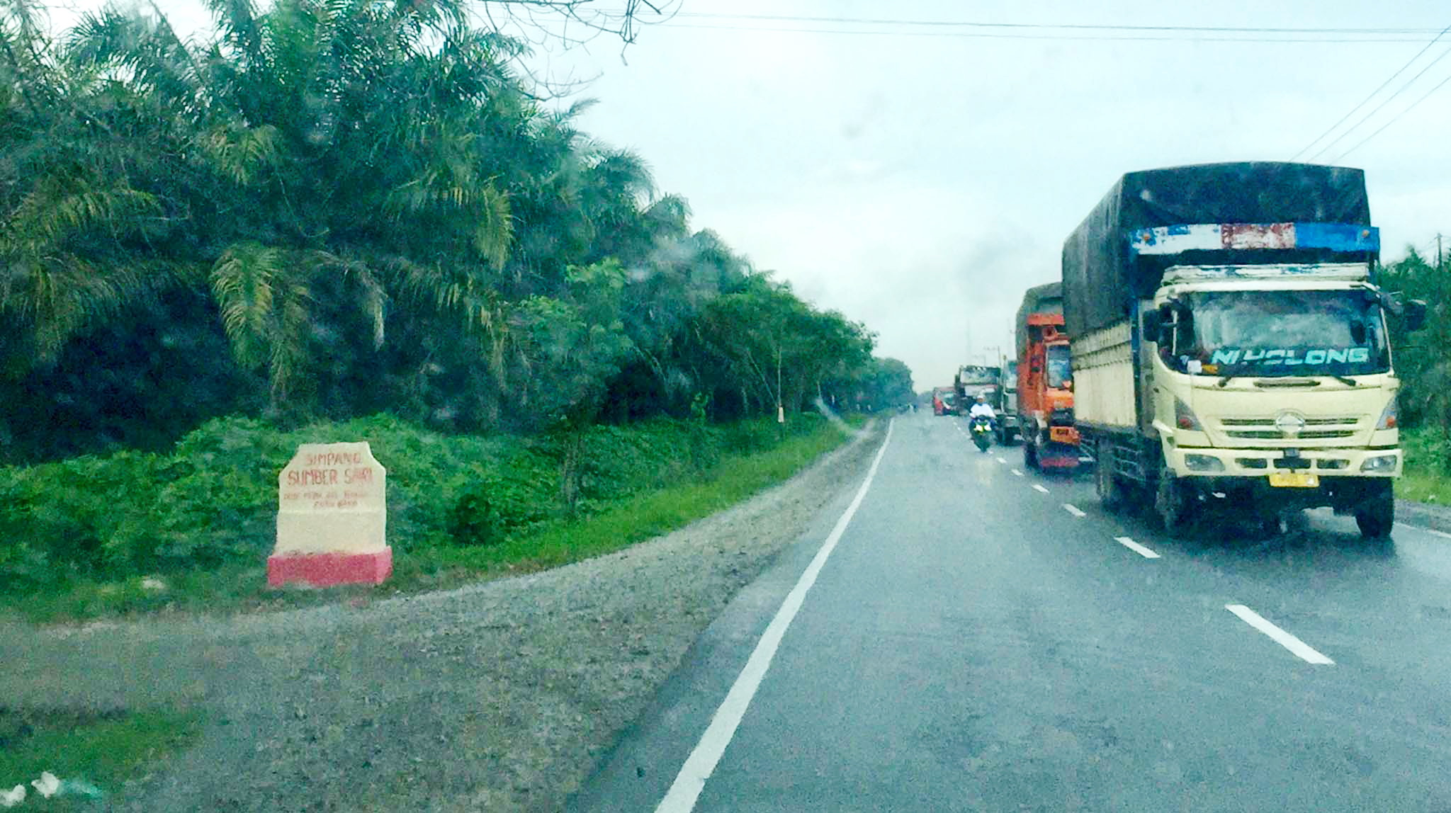 welcome gate to Perkebunan Sei Balai (Simpang Sumber Sari), Sei Balai, Batu Bara